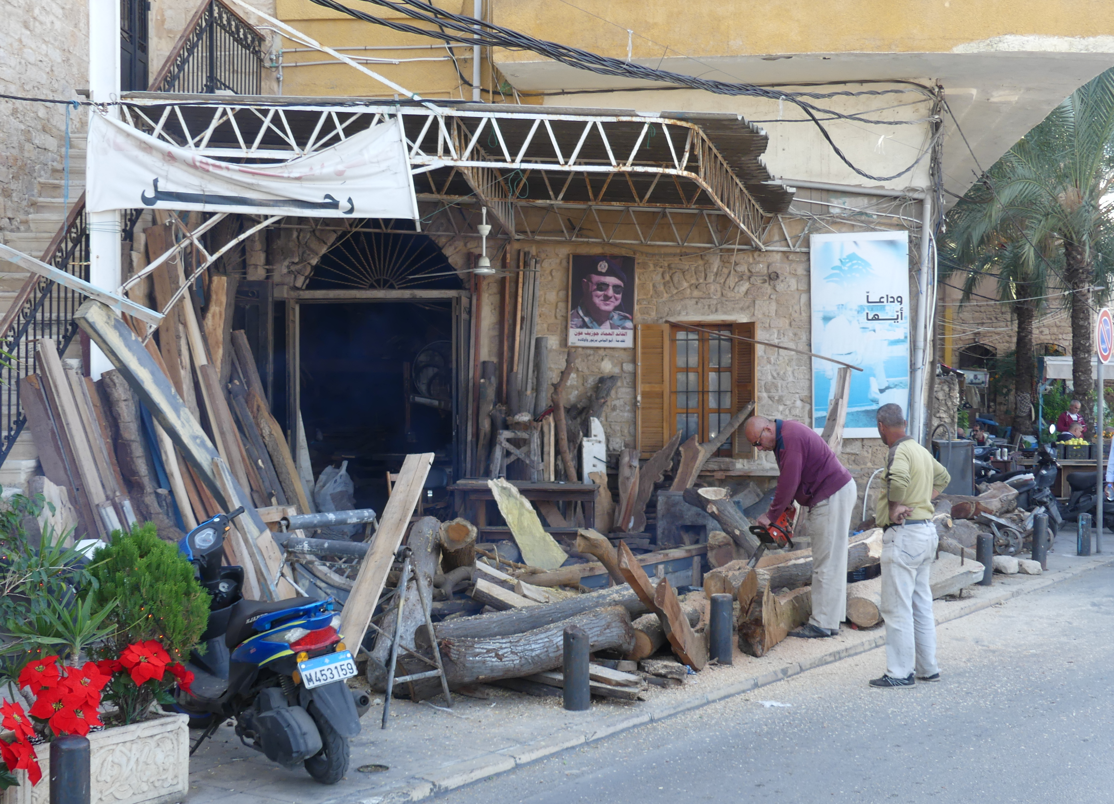 A member of the Barbour family cutting boards from tree trunks with a chainsaw to build a wooden fishing boat in the harbour area of the Christian quarter in Tyre/Sour, Southern Lebanon, which is one of the few places in the Mediterranean to continue this traditional shipmaking.